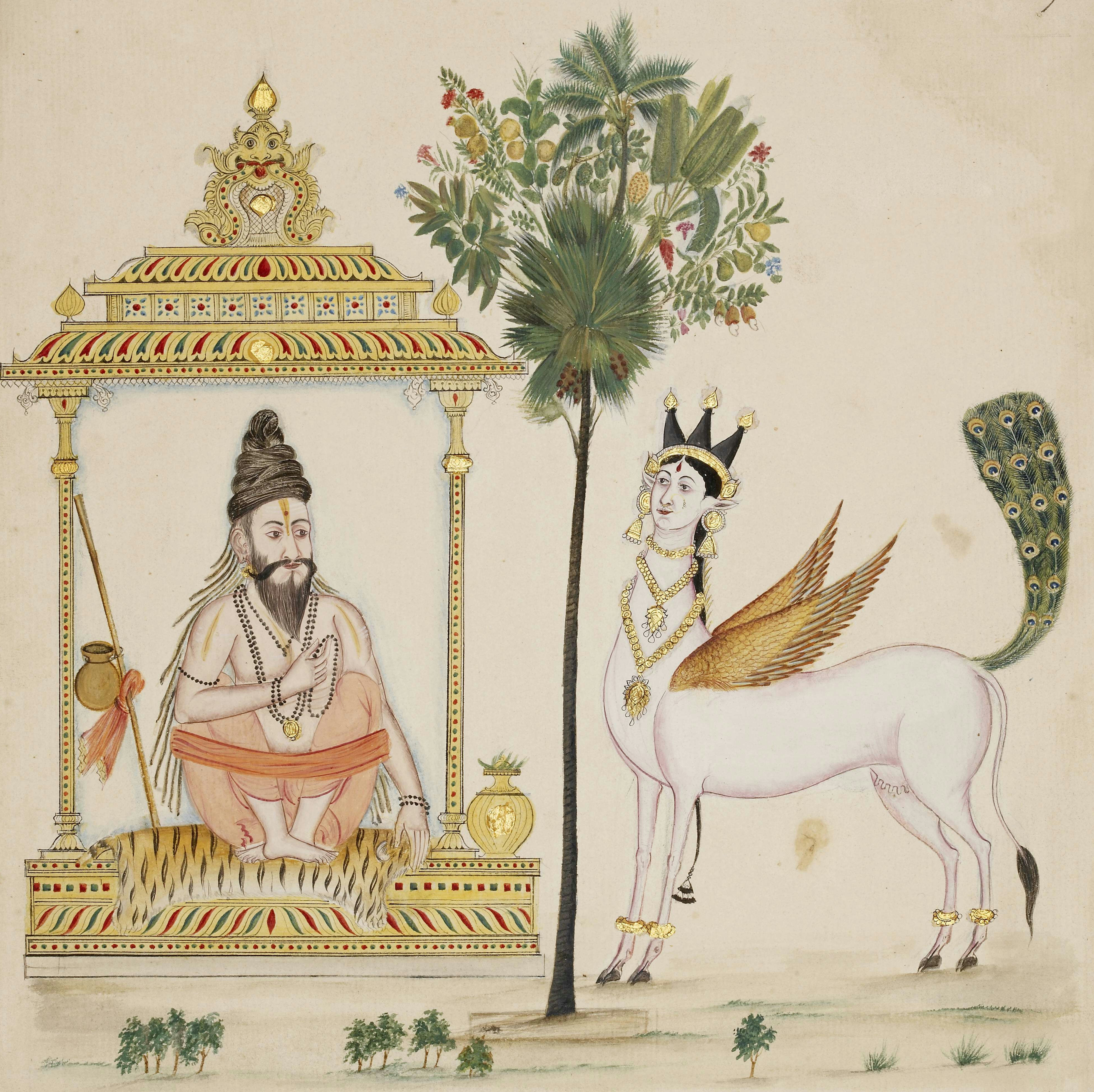 "Painting of a rishi, the Parijata Tree and Kamadhenu. The sage sits in an architectural frame, seated on a tiger-skin and with yogabandha. In his right hand he holds a rosary. To his right are his water-pot and staff while to his left is a lotah with bilva leaves. In the centre of the page is the Parijata Tree, with many different types of leaves and flowers. To the left, is the wish-fulfiling mythic beast, Kamadhenu or Surabhi. It has a human crowned head, the body of a cow (with anklets), as well as wings and a peacock's tail. An element of perspective is provided by the sketched in foreground. On laid European paper watermarked with an armorial design and 'T W'."